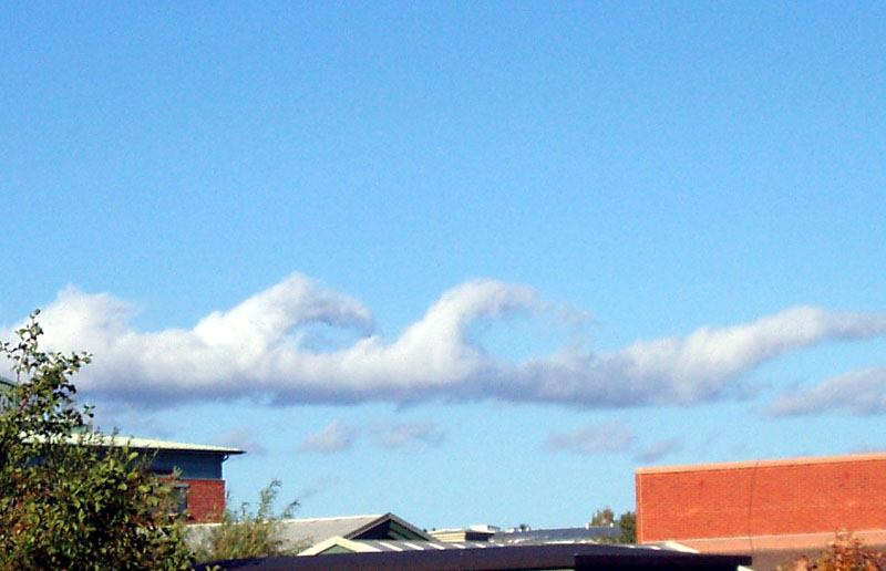 Stratocumulus stratiformis clouds showing Kelvin-Helmholtz instability